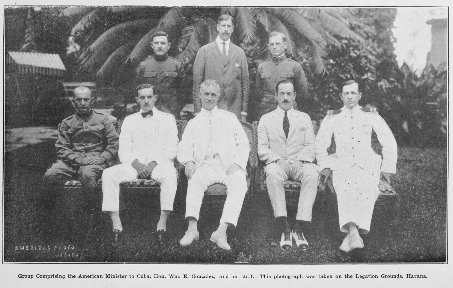 William Gonzalez, American Minister to Cuba and his staff. Cropped from the magazine shown, rotated 90 degrees clockwise and converted to greyscale with GIMP.